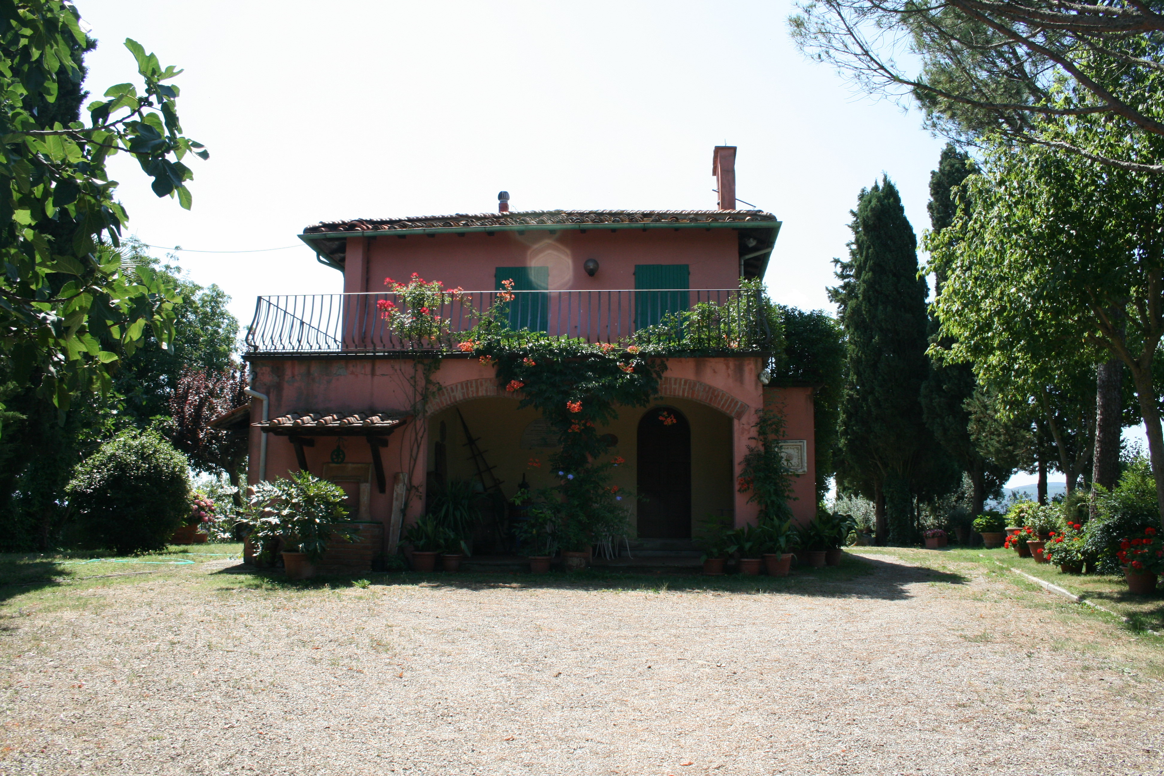 The church of Pietraversa in Montevarchi countryside